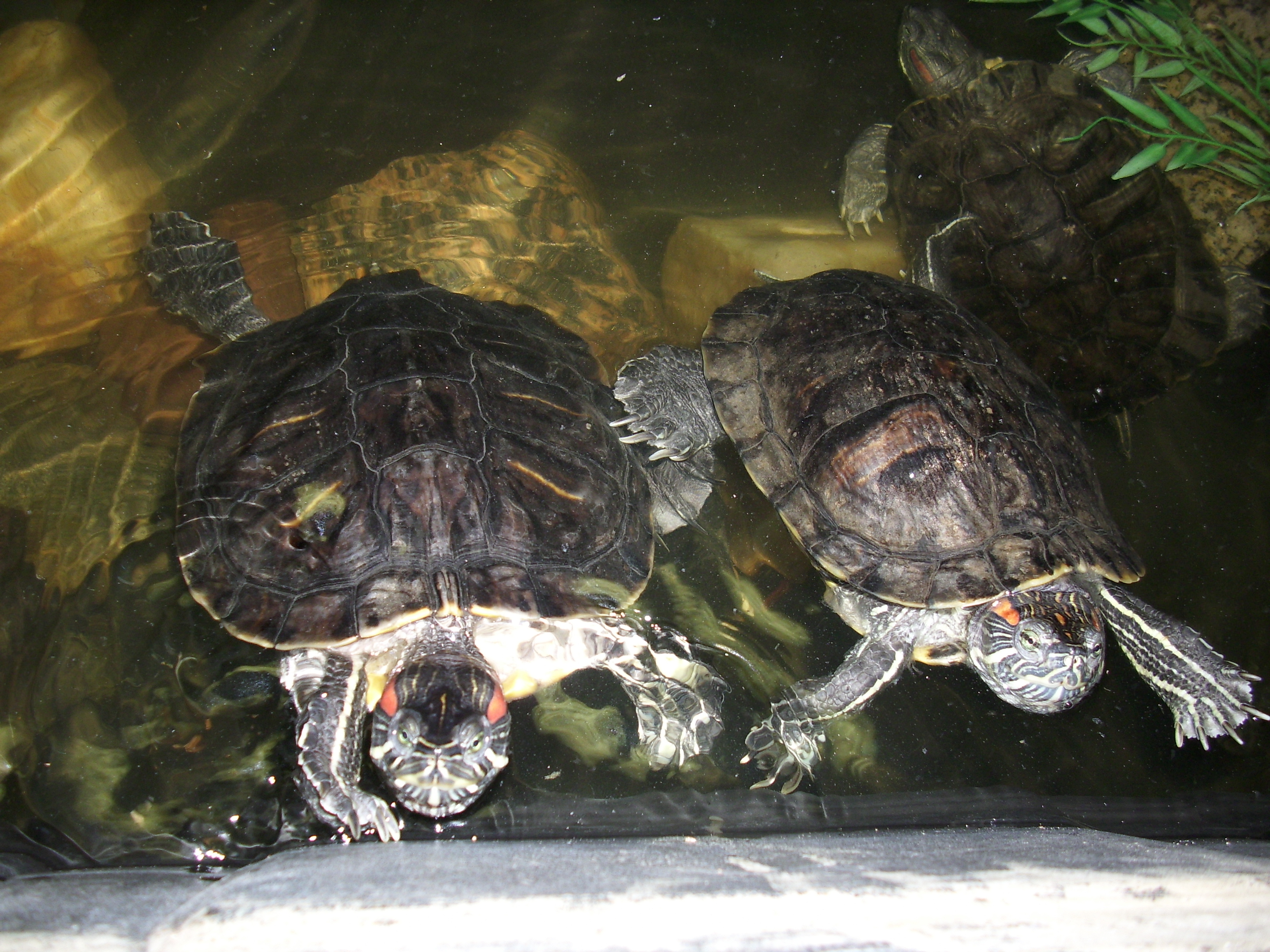 Two red sliders in reservoir.